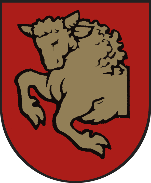 This is a modified of the former municipality, Aars Municipality which still can be found around city for example in manhole cover and in the city entrance sign.